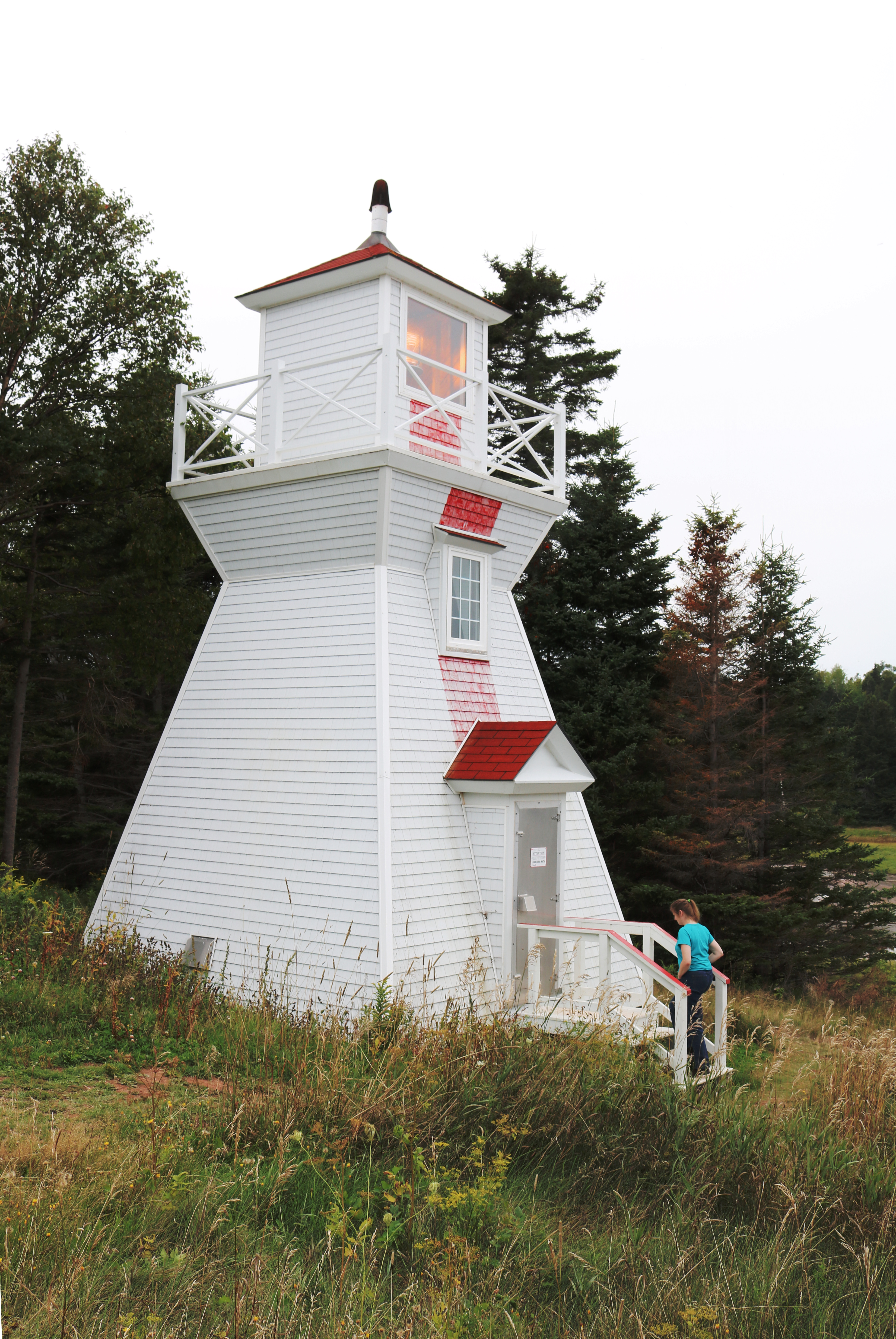 Warren Cove Front Range Lighthouse on Prince Edward Island